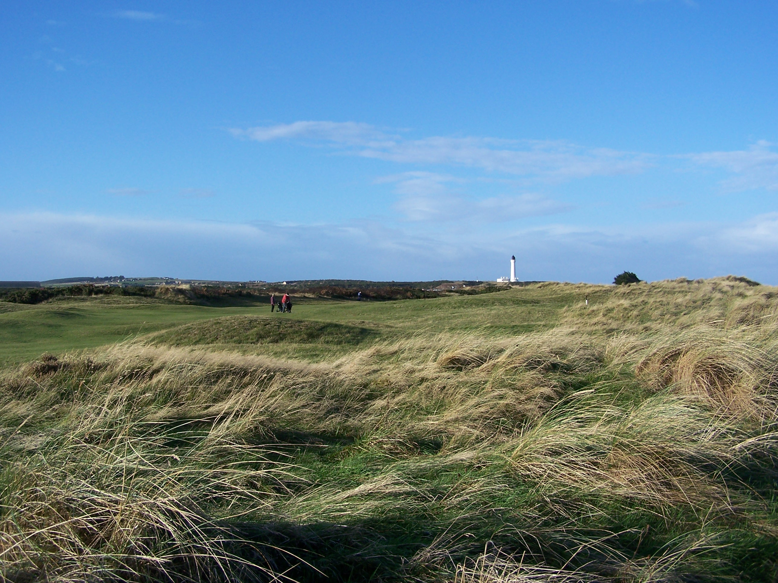 Moray Golf Club, Lossiemouth, Scotland